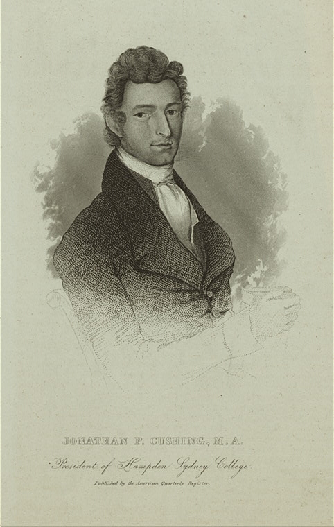 Portrait of Jonathan P. Cushing, President of Hampden–Sydney College. Courtesy of the Digital Collection of the New York Public Library